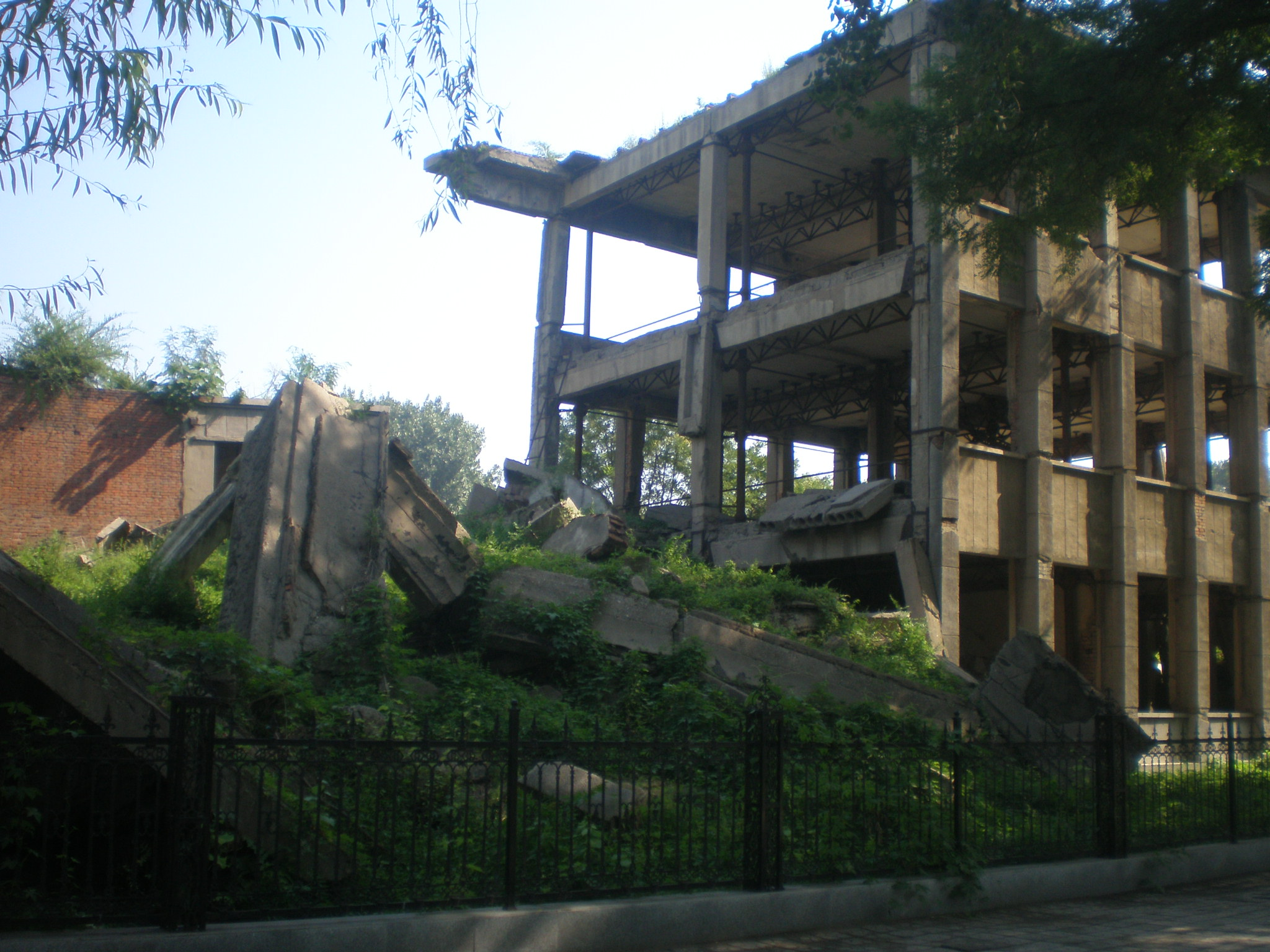 In Tangshan, Hebei